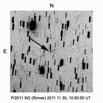 Comet P/2011 W2 (Rinner) Magnitude 17.5 by Charles Bell Time Stamp: 2011 11 30, 10:50:50 UT Tail 25 arc sec PA 285 degrees Image is stack of 15 frames x 263 seconds each Total exposure 3945 seconds or 65.75 minutes Sky motion 0.43 arc sec/min at PA 174.0 deg perihelion date T 2011 Oct. 10.6161 TT perihelion distance q = 2.315563 AU earth distance delta = 1.636 AU solar distance r = 2.352 AU elongation = 125.7 degrees phase = 19.9 degrees stack of 15 x 263 sec 0.3-m f/6.4 Schmidt-Cassegrain + CCD + Red filter C. Bell H47 Vicksburg